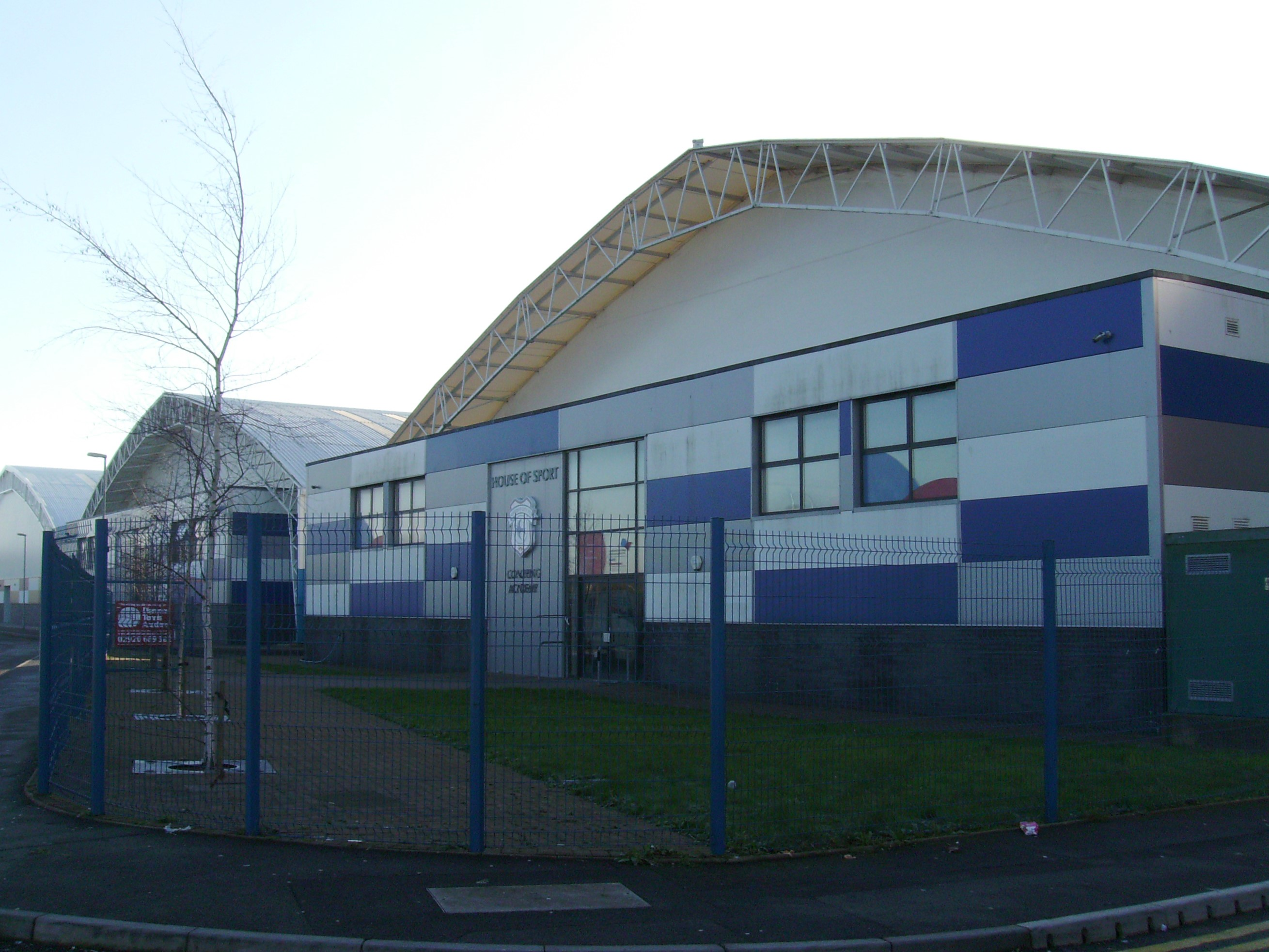 House of Sport, next to Cardiff City Stadium, Clos Parc Morgannwg, Leckwith, Cardiff.